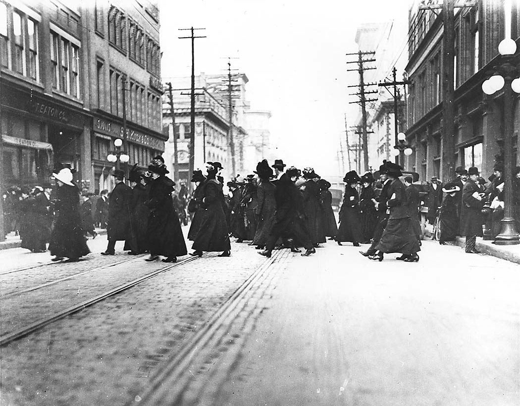 Queen Street West, looking east towards Yonge Street. Shoppers cross between the Simpsons (right) and Eaton's (left) department stores on opposite sides of the street. (Toronto, Canada)